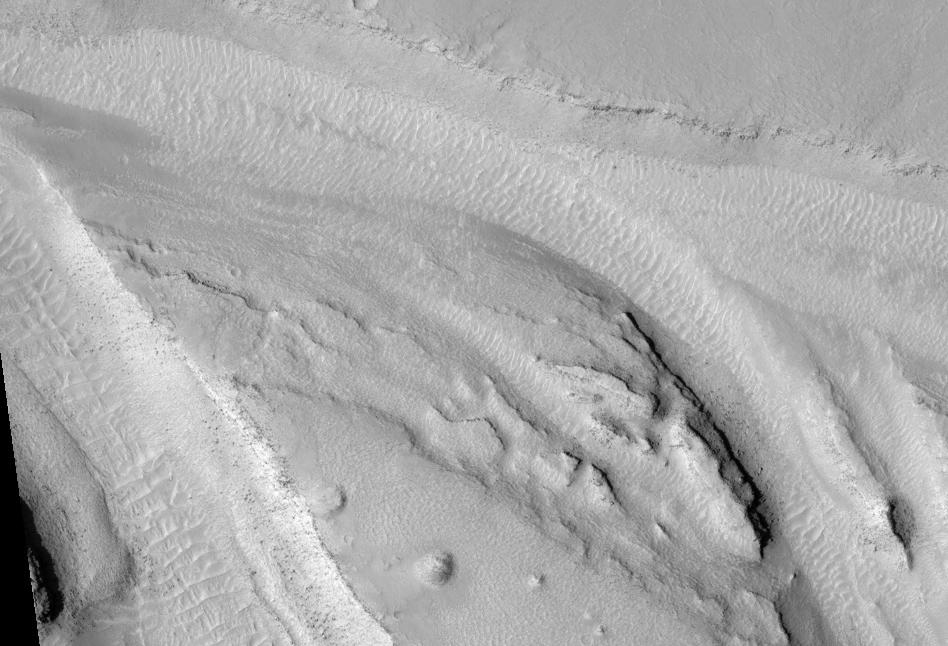 Hrad Vallis, as seen by HiRISE. The location is 34.2 degrees north latitude and 218.4 degrees west longitude. Picture was taken with the Mars Reconnaissance Orbiter's HiRISE. Picture credit is NASA/JPL/ University of Arizona.